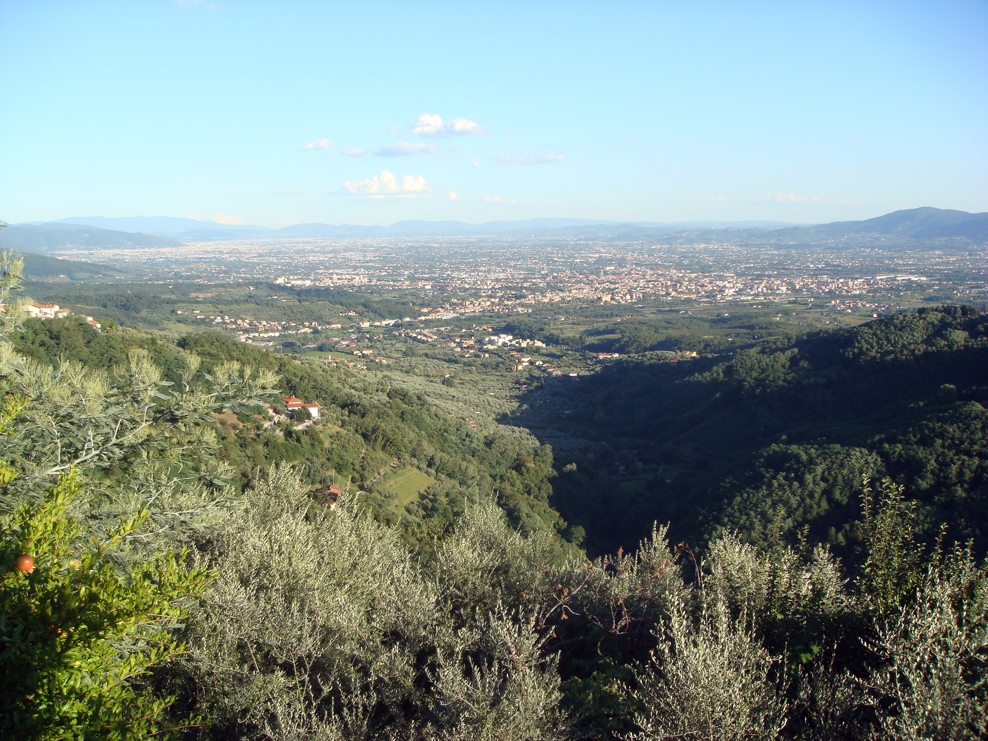 Panorama of Vincio valley and Pistoia